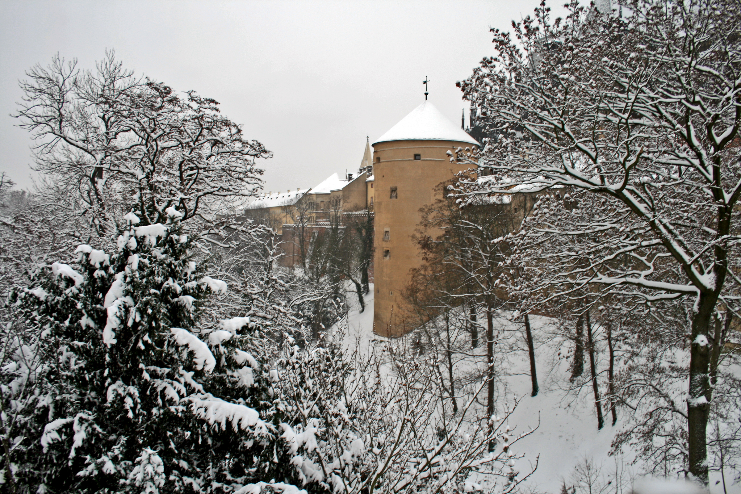 Surroundings of Prague Castle with Mihulka tower under snow, winter 2010, Czech Republic